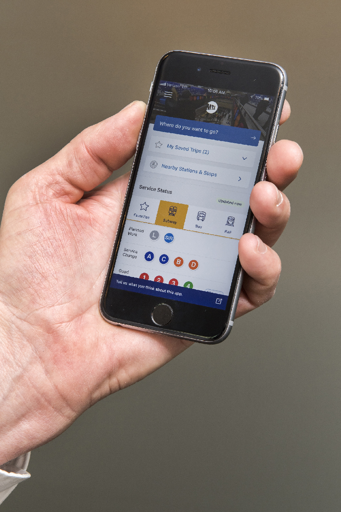 Photo of the user interface of the Metropolitan Transportation Authorita's myMTA application at beta launch.